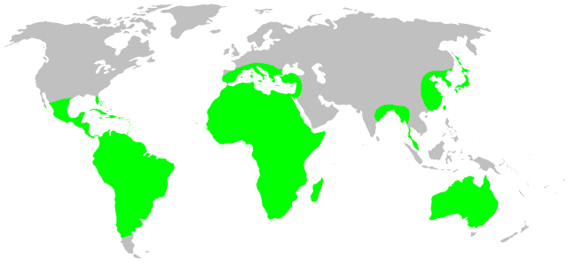 Selenopidae habitat distribution, drawn after Platnick: World Spider Catalog 7.0. This is not at all a precise rendering of the distribution! If you have better information, please replace this map, or send me the info, and i will redraw it.